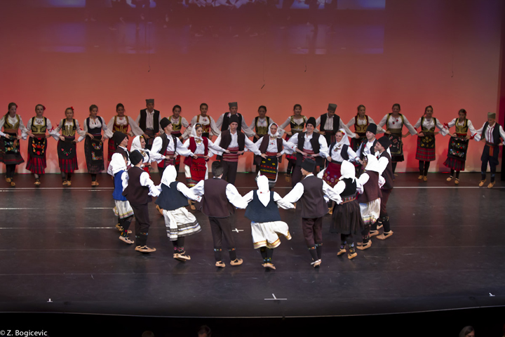 SCA Opleanc yearly concert at Center for Performing Arts in Mississauga 2012